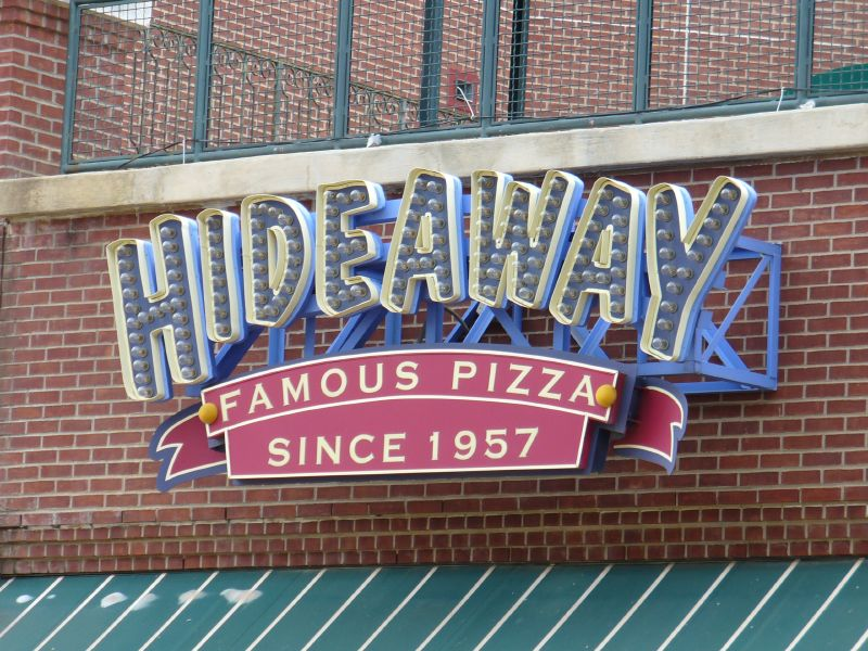 Hideaway Pizza sign at the Bricktown ballpark.